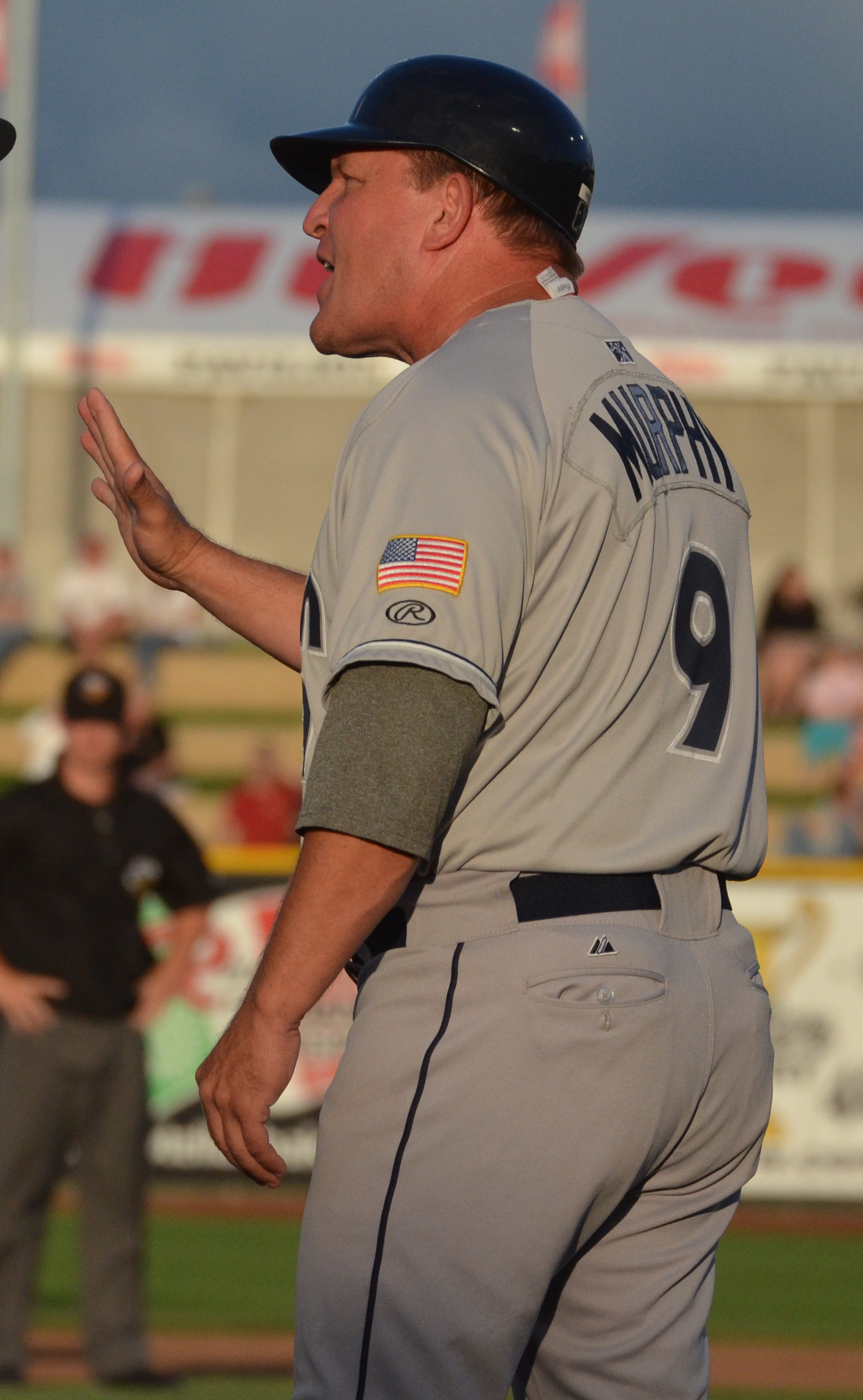 Pat Murphy